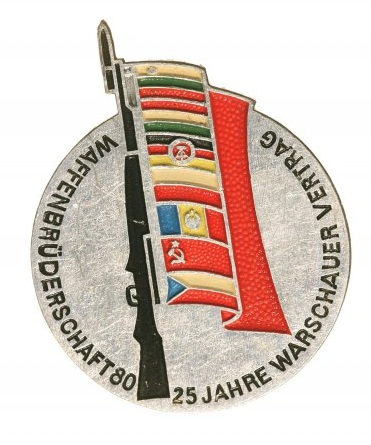 Badge 25 years Warsaw Pact